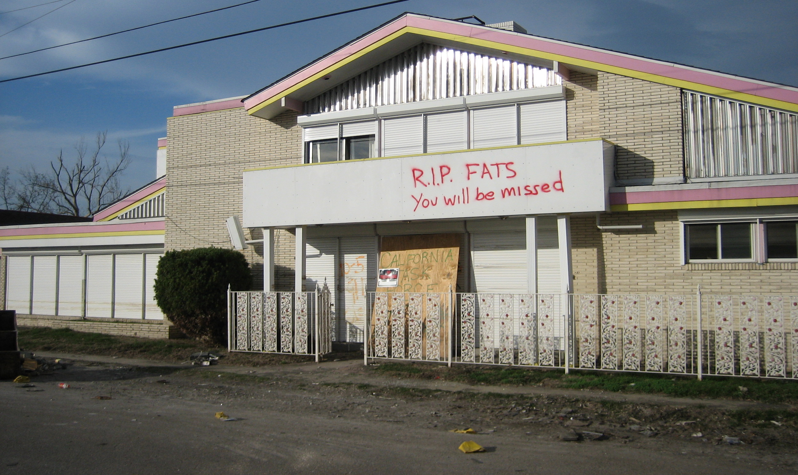 Home of Fats Domino; with graffiti from the period after rumors surfaced that he had died in the post-Hurricane Katrina flooding of the neighborhood. Later, it was reported that he had escaped with his life. Marais Street side of building. Photo by Infrogmation, January 2006.